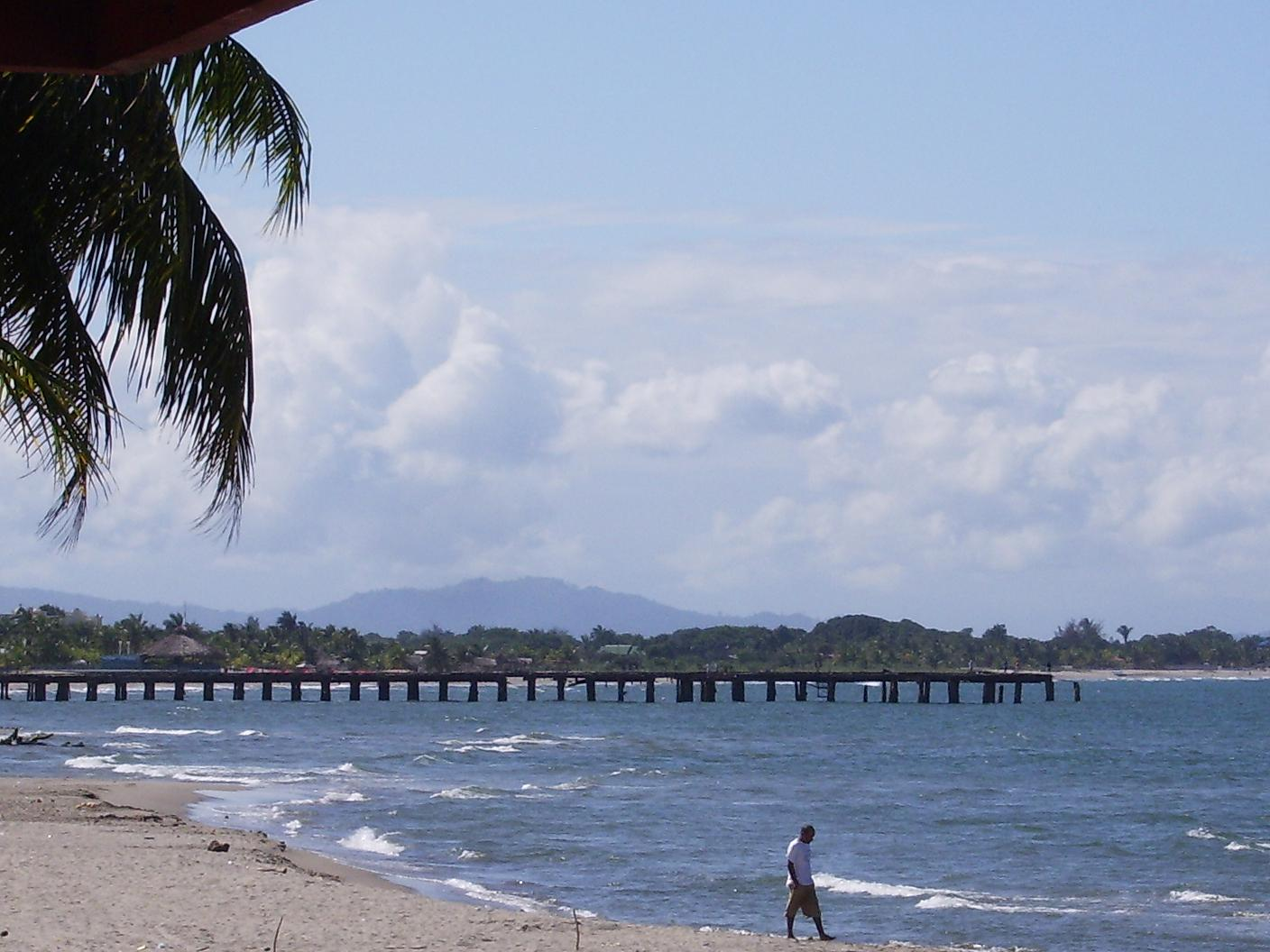 Muelle de Tela